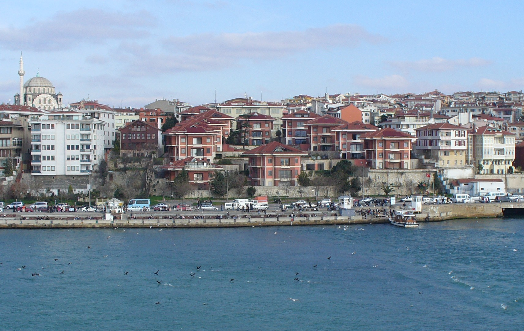 A view of the waterfront of the İstanbul neighbourhood of Üsküdar, taken from Kızkulesi. QuartierLatin1968 15:09, 26 February 2007 (UTC)